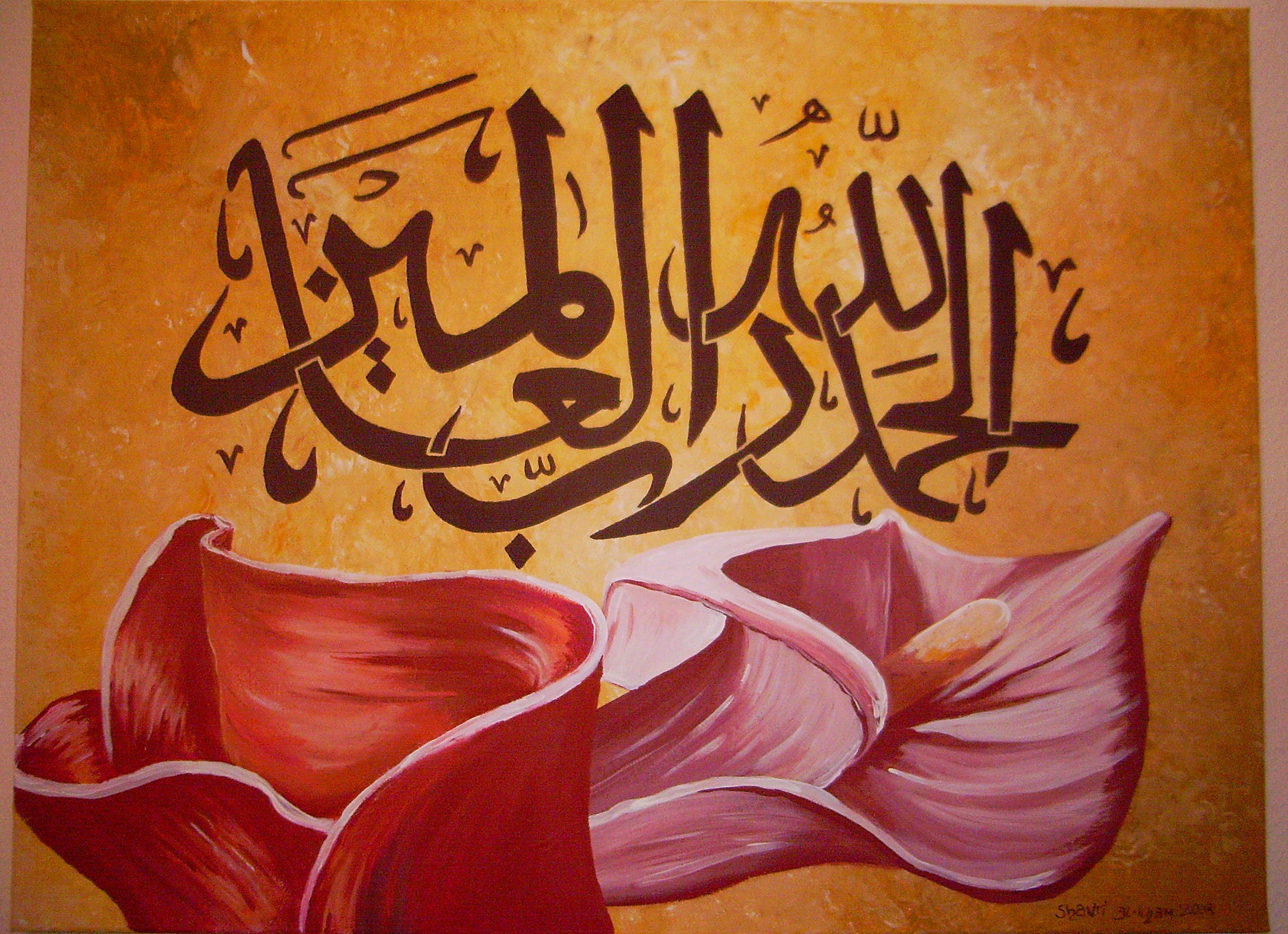 acrylic painting.calligraphy.writing "Alhamdulillâh".handmade by the muslim artist Aischa Panning.